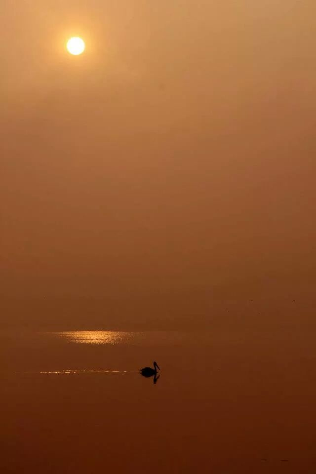 Kolavai lake